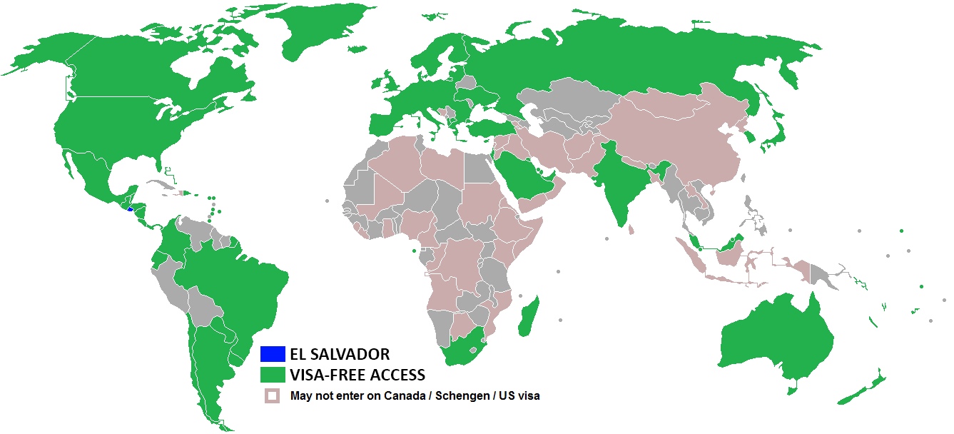 El Salvador Visa-free access to El Salvador May not enter on Canada/Schengen/US visa